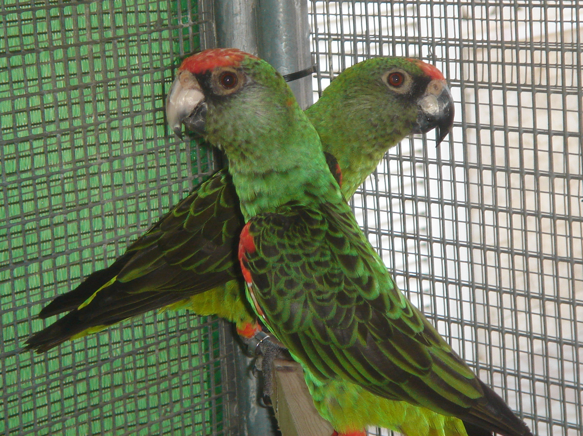 Photograph of a pair of Jardine's Parrots (Poicephalus gulielmi).